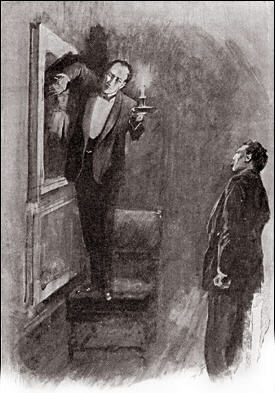 Illustration of the Sherlock Holmes adventure The Hound of the Baskervilles.